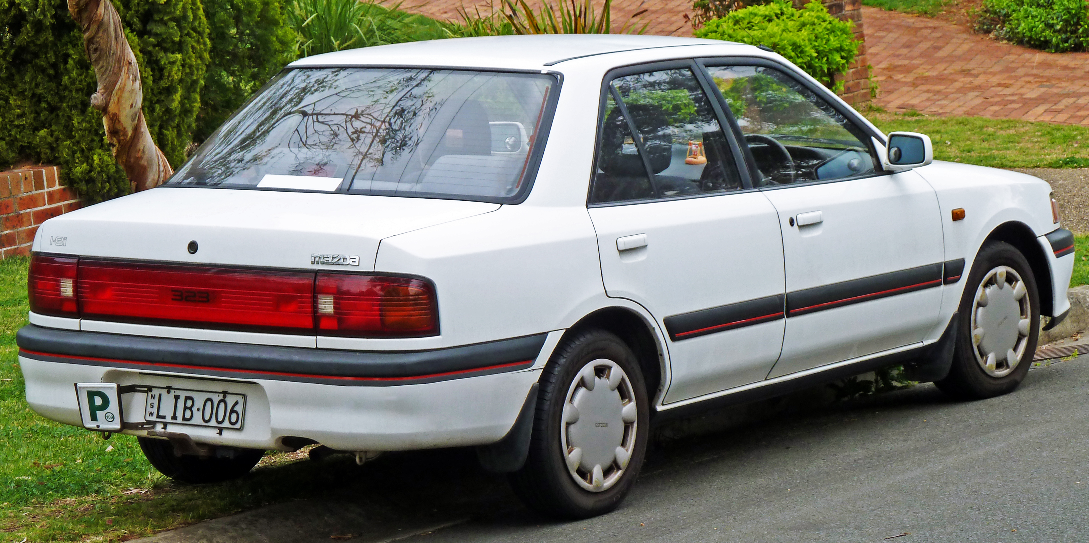 1991–1994 Mazda 323 (BG Series 2) 1.8i sedan. Photographed in Gymea Bay, New South Wales, Australia.